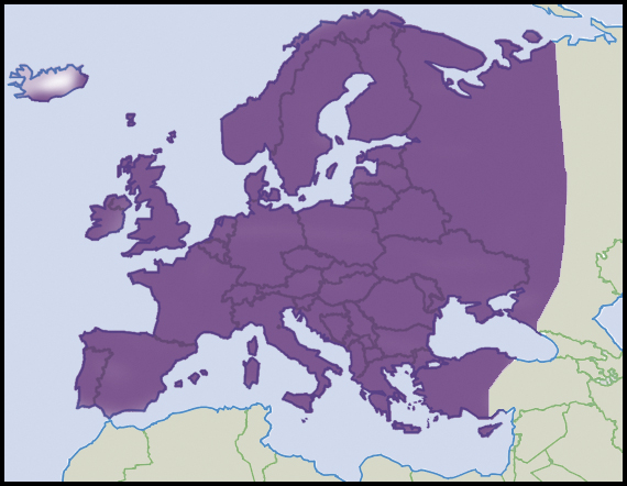 Punctum pygmaeum (Draparnaud, 1801). Distribution in Europe, scientific state of knowledge of 2012. Source description in English. Light colour indicated rare occurrences or regions where the species could eventually be expected to occur. Dark colour indicated relatively reliable occurrences, as well as regions where the species was expected to occur, and where the species was not known to be extremely rare. Dark colour indications were not necessarily based on published records. Species summary in AnimalBase